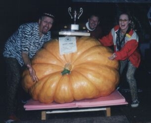 LuLu and the TomCat perform at the Roland Pumpkin Fair, Roland, Manitoba, Canada